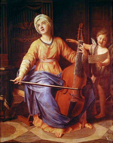 Saint Cecilia